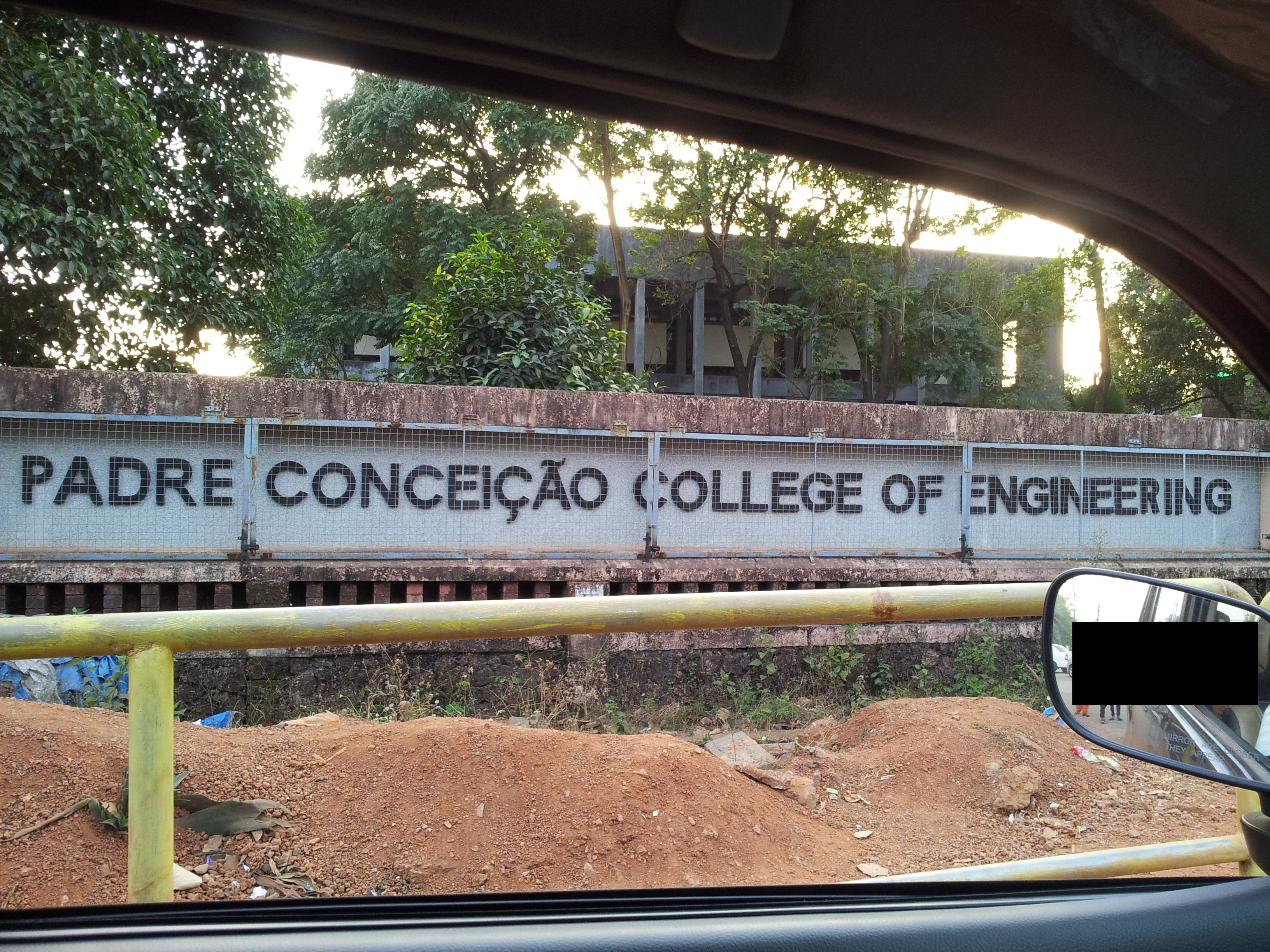 Padre Conceição College of Engineering in Verna Goa